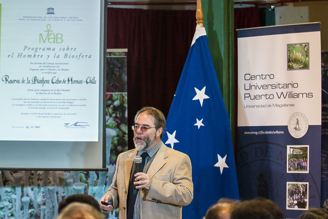 Environmental philosopher and ecologist Ricardo Rozzi speaking at the International Association of Bryologists conference at the Omora Ethnobotanical Park in the UNESCO Cape Horn Biosphere Reserve about bryophyte conservation, his role in the formation of the UNESCO Cape Horn Biosphere Reserve, a hoptspot for bryophyte anbd lichen diversity.